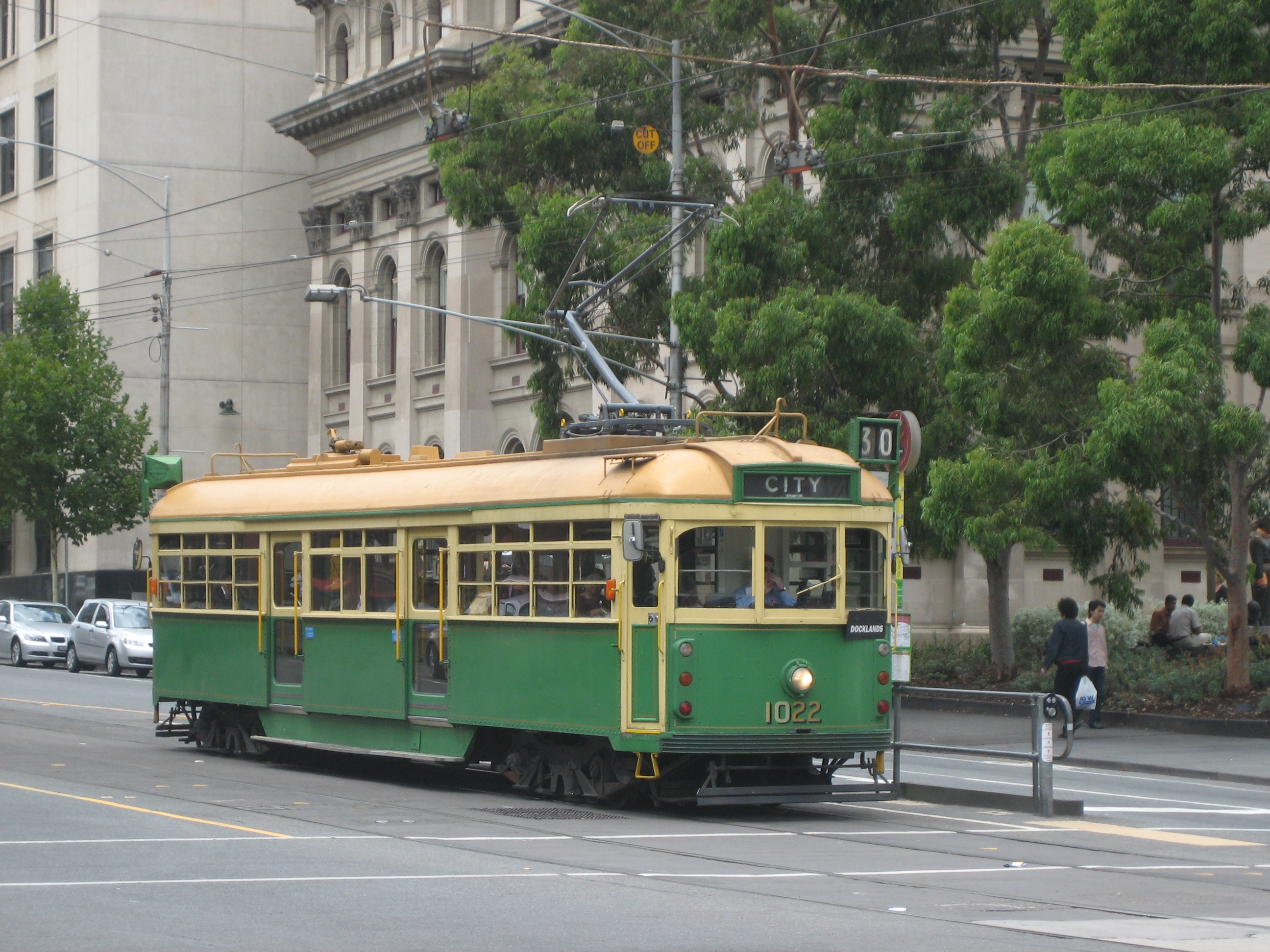 W7 1022 in La Trobe St, intersection Swanston St, on route 30, Melbourne, Australia